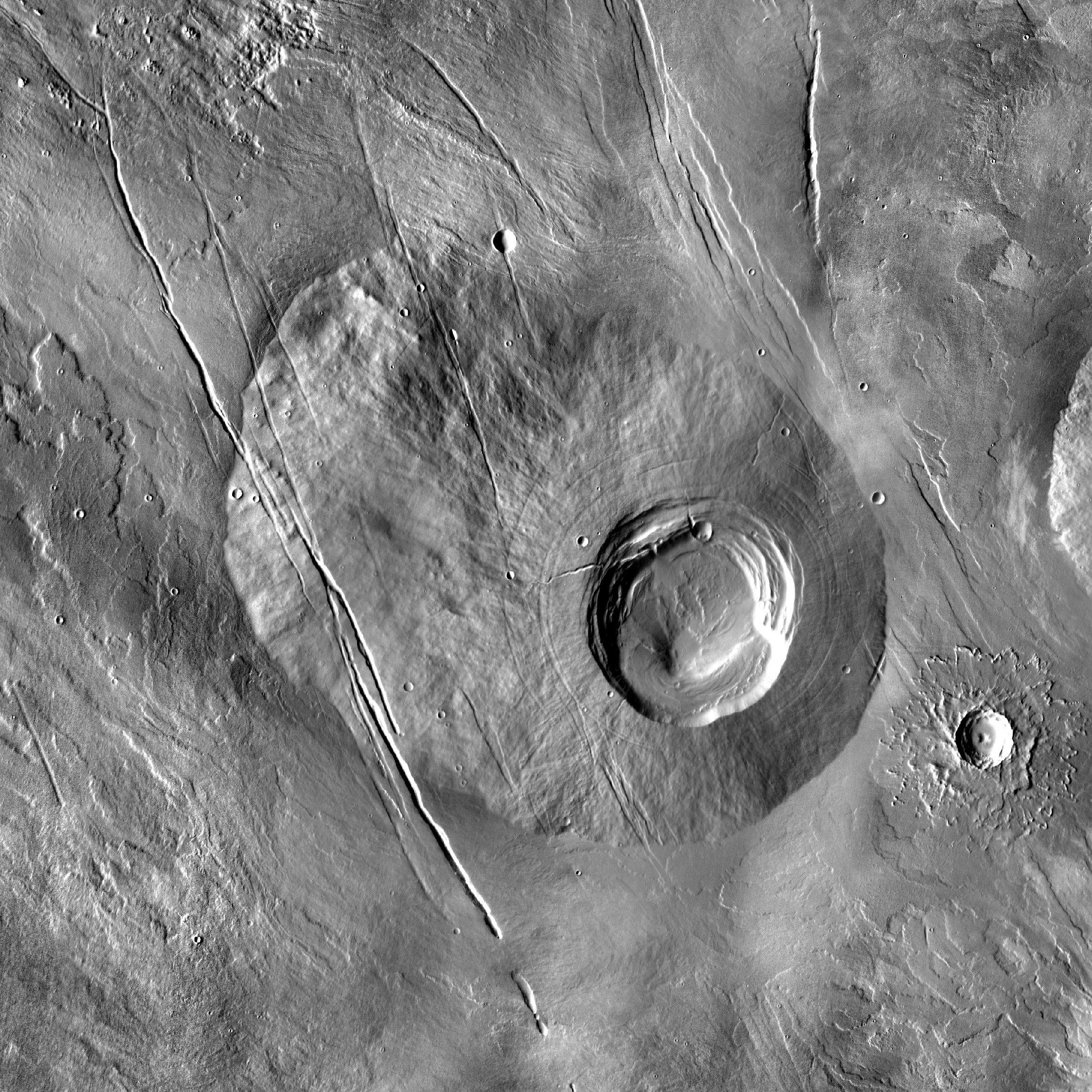 THEMIS daytime infrared image mosaic showing the volcano Biblis Tholus in the central part of the Tharsis region of Mars.